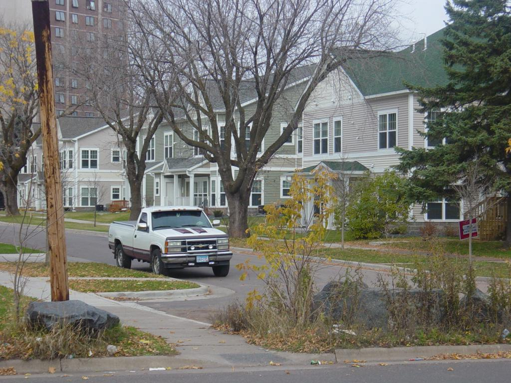 Picture of the Ramsey Townhomes development in West Duluth, Duluth, MN. Taken November 3, 2005 by Jacob Norlund (me).